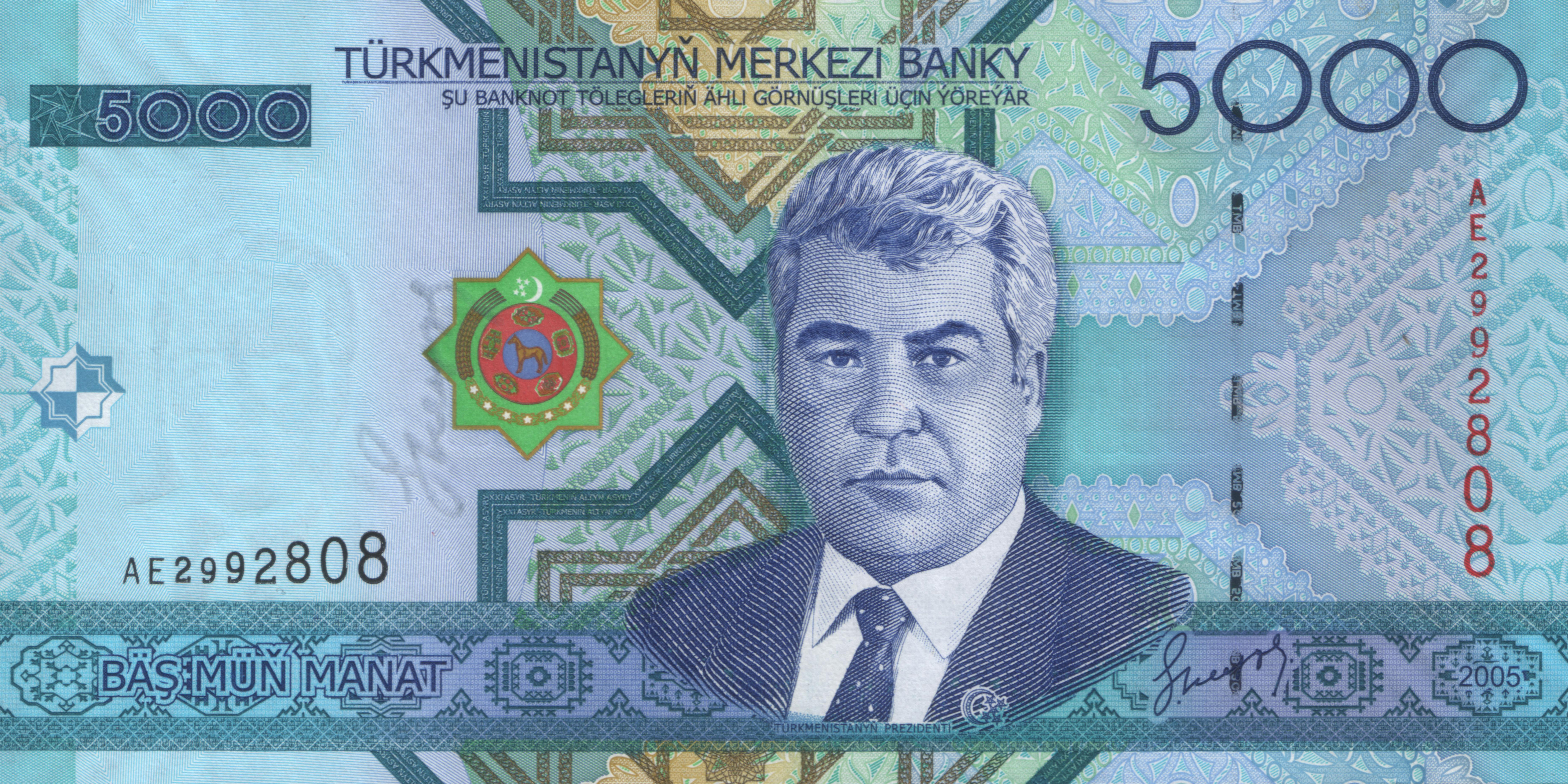 5000 manats of Turkmenistan (2005)